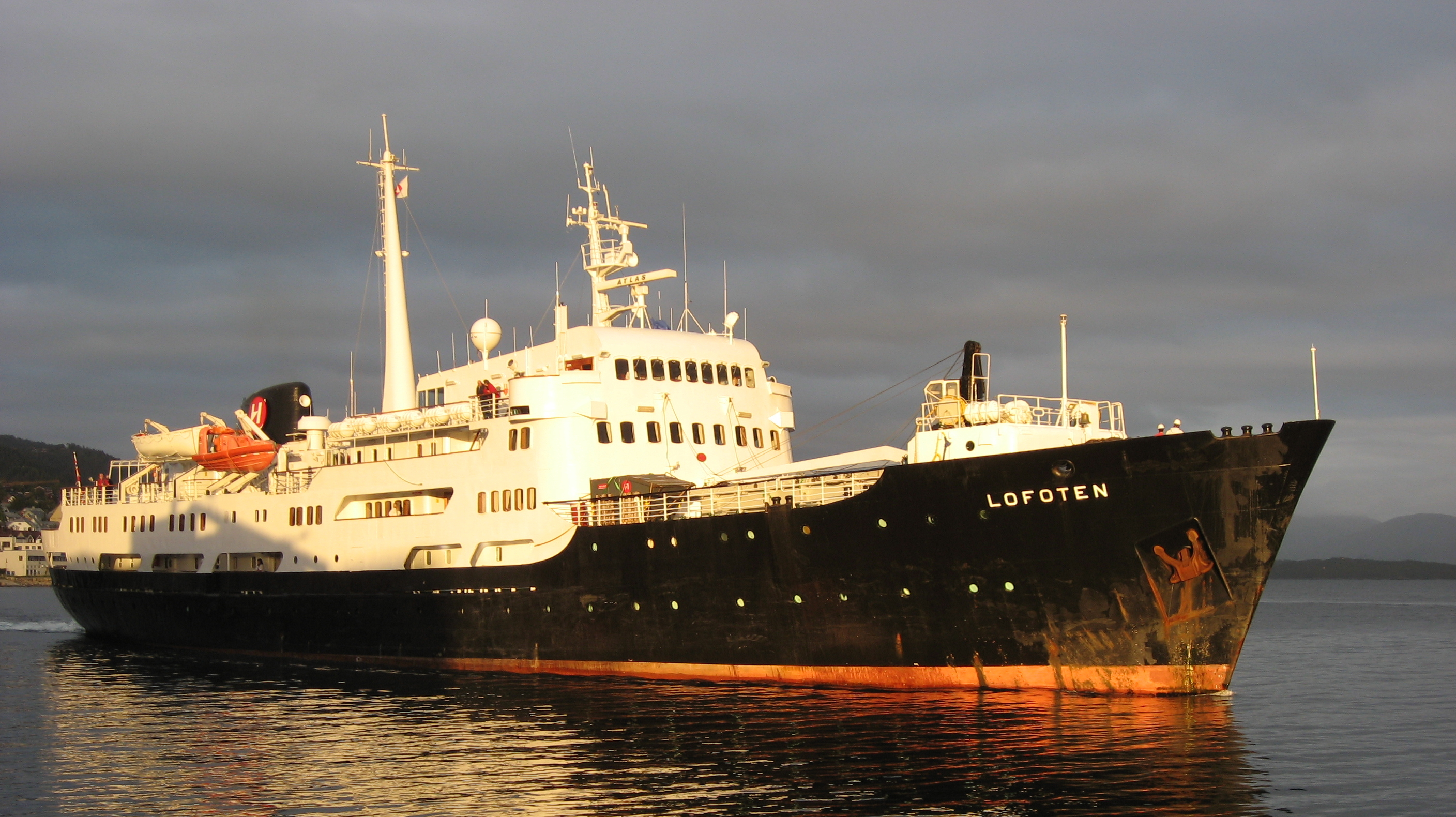 Norwegian coastal express (Hurtigruten) ship MS Lofoten leaves Molde